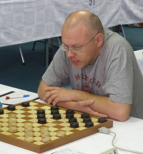 Alexander Baljakin, (born 8 April 1961) is a Dutch draughts player born in the Russian city of Arkhangelsk. He is also a writer of books about draughts. Photo taken in Bovec (Slovenia).